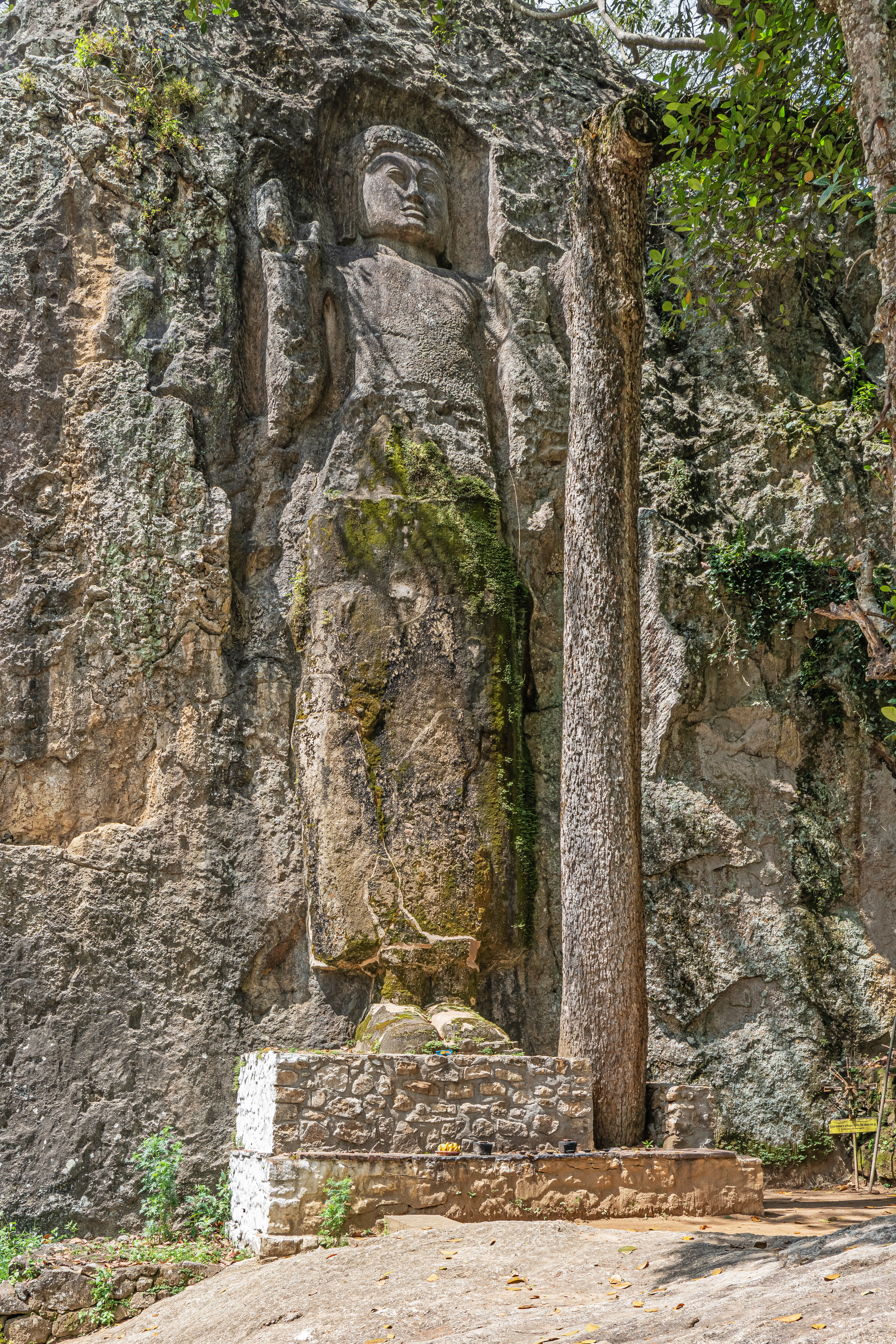 Dhowa rock temple near Ella, Sri Lanka: rock-carved Buddha statue at the temple